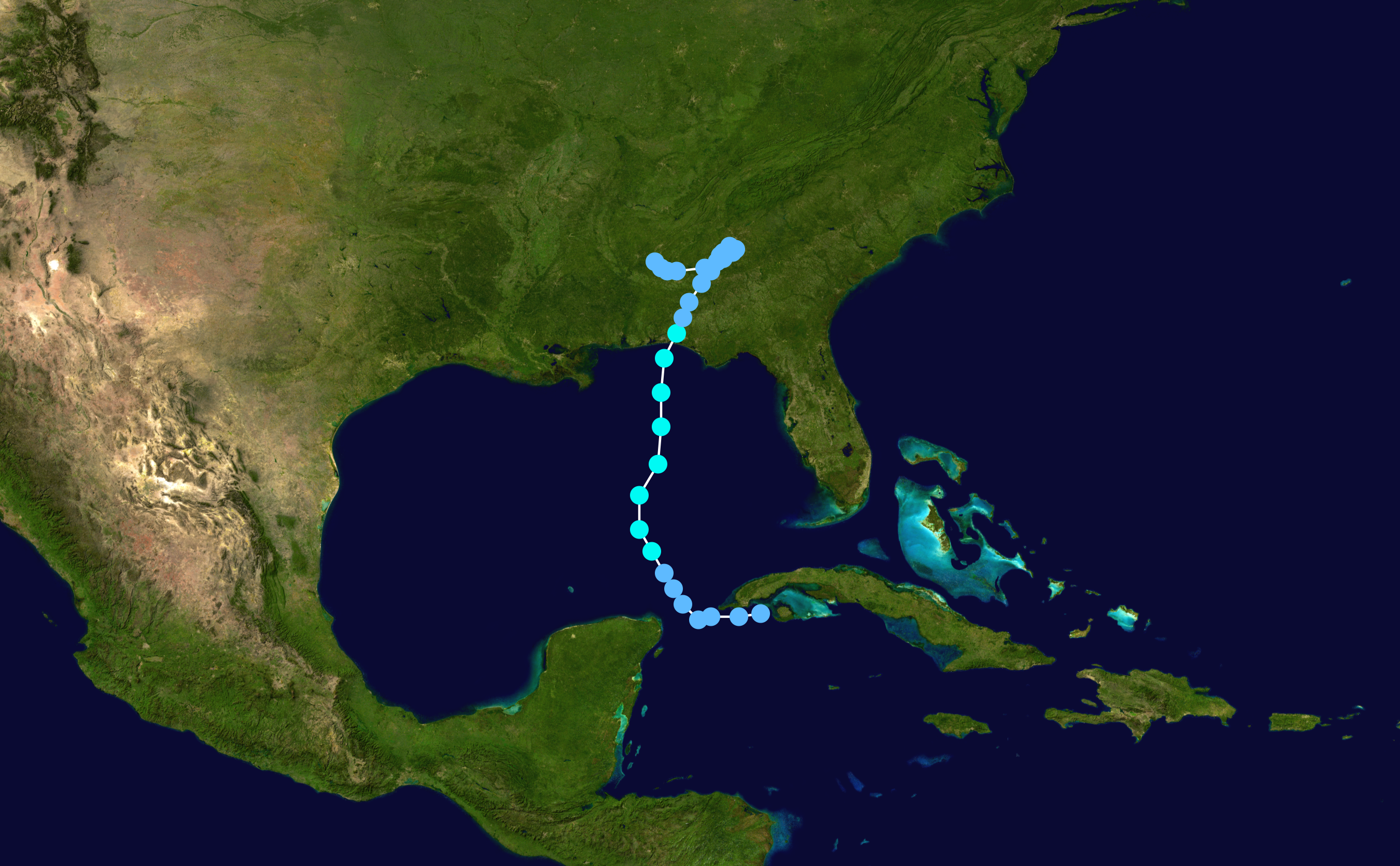 Track map of Tropical Storm Alberto of the 1994 Atlantic hurricane season. The points show the location of the storm at 6-hour intervals. The colour represents the storm's maximum sustained wind speeds as classified in the Saffir–Simpson scale (see below), and the shape of the data points represent the nature of the storm, according to the legend below. Saffir–Simpson scale Tropical depression≤38 mph≤62 km/h Category 3111–129 mph178–208 km/h Tropical storm39–73 mph63–118 km/h Category 4130–156 mph209–251 km/h Category 174–95 mph119–153 km/h Category 5≥157 mph≥252 km/h Category 296–110 mph154–177 km/h Unknown Storm type Tropical cyclone Subtropical cyclone Extratropical cyclone / Remnant low / Tropical disturbance / Monsoon depression